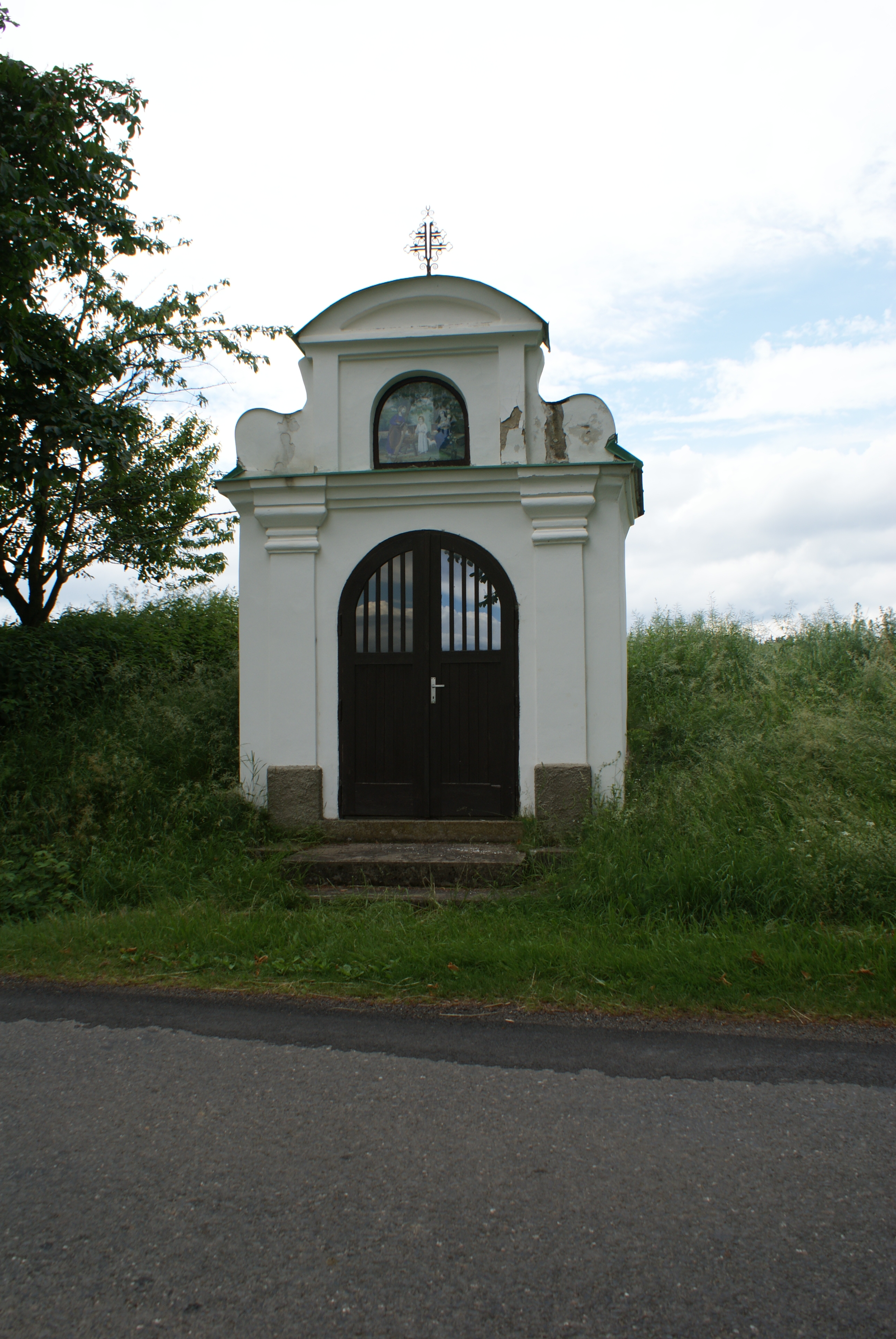 Bukovany, a village in Příbram district, Czech Republic, a chapel near the village. Česky: Kaplička u Bukovan, okr. Příbram